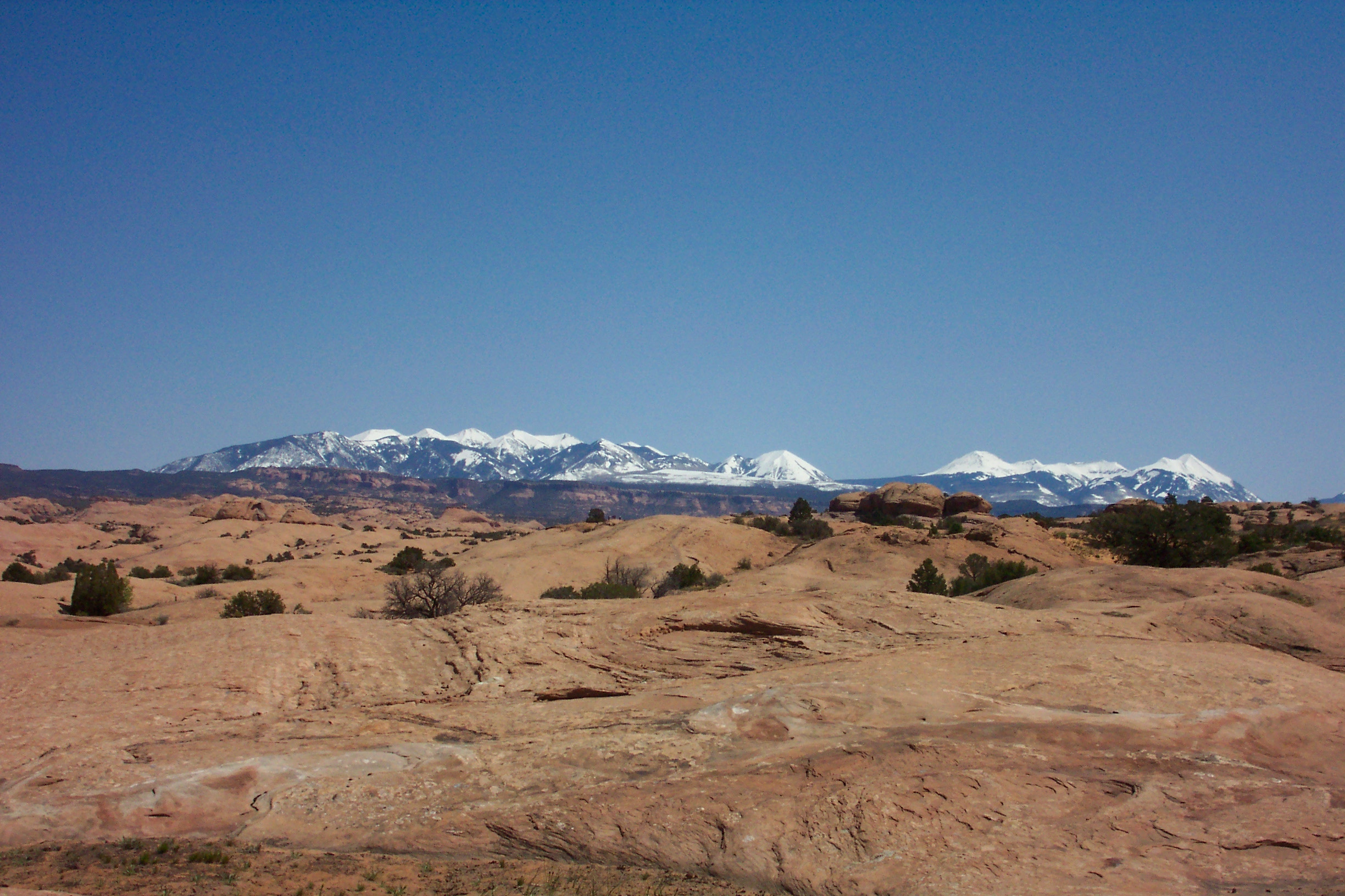 Slickrock Trail in Moab (Utah, USA) with La Sal mountain range in the background.